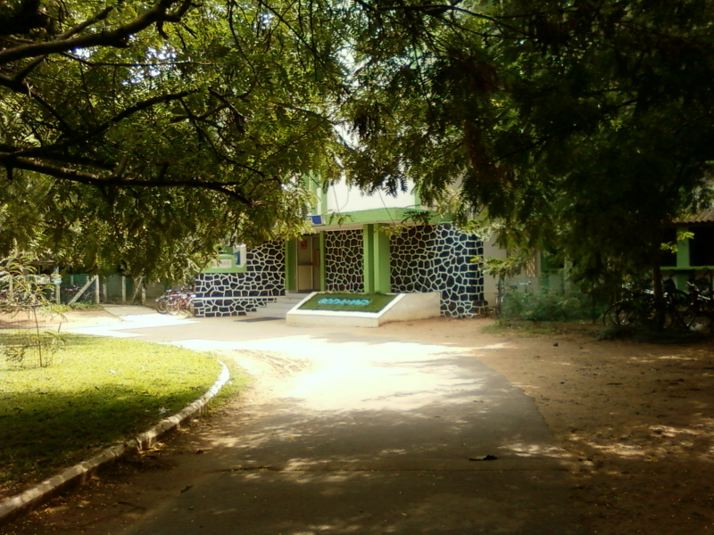 Entrance to Godavari hostel in IIT Madras, Chennai.